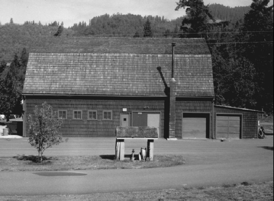 Tiller Ranger Station barn; photo shows the east elevation of the barn, looking west